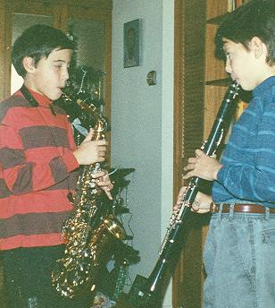 A duet. Self-created image.